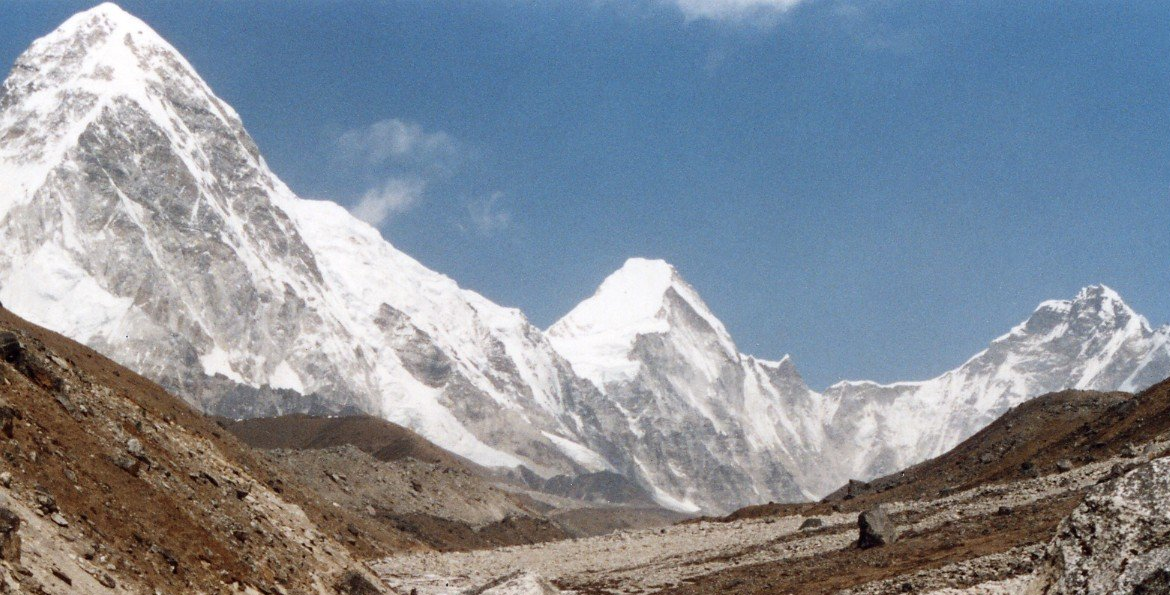 Pumori-Langtren-Khumbutse (from left to right)